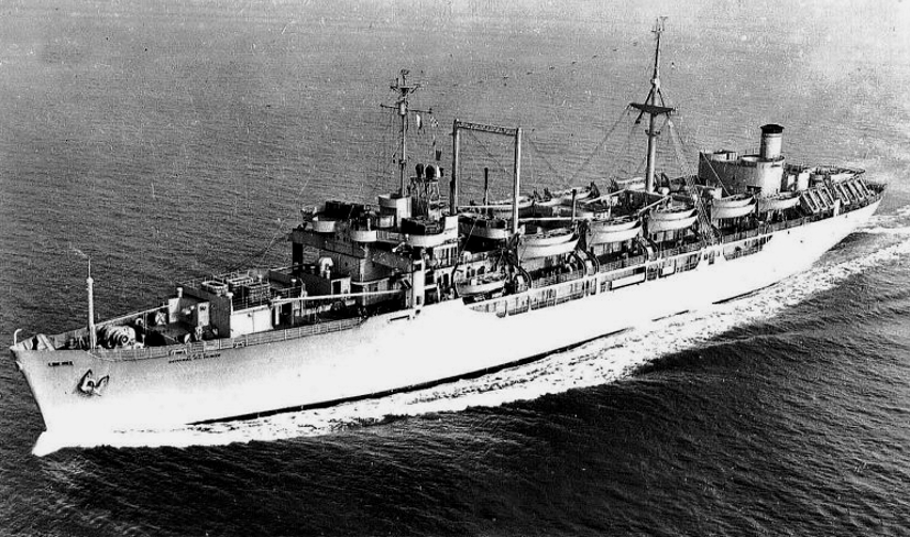 The U.S. Military Sea Transportation Service transport USNS General R. L. Howze (T-AP-134) underway at sea, in the 1950s.